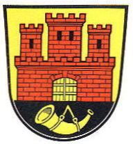 Coat of arms of the municipality Horneburg in Lower Saxony, Germany